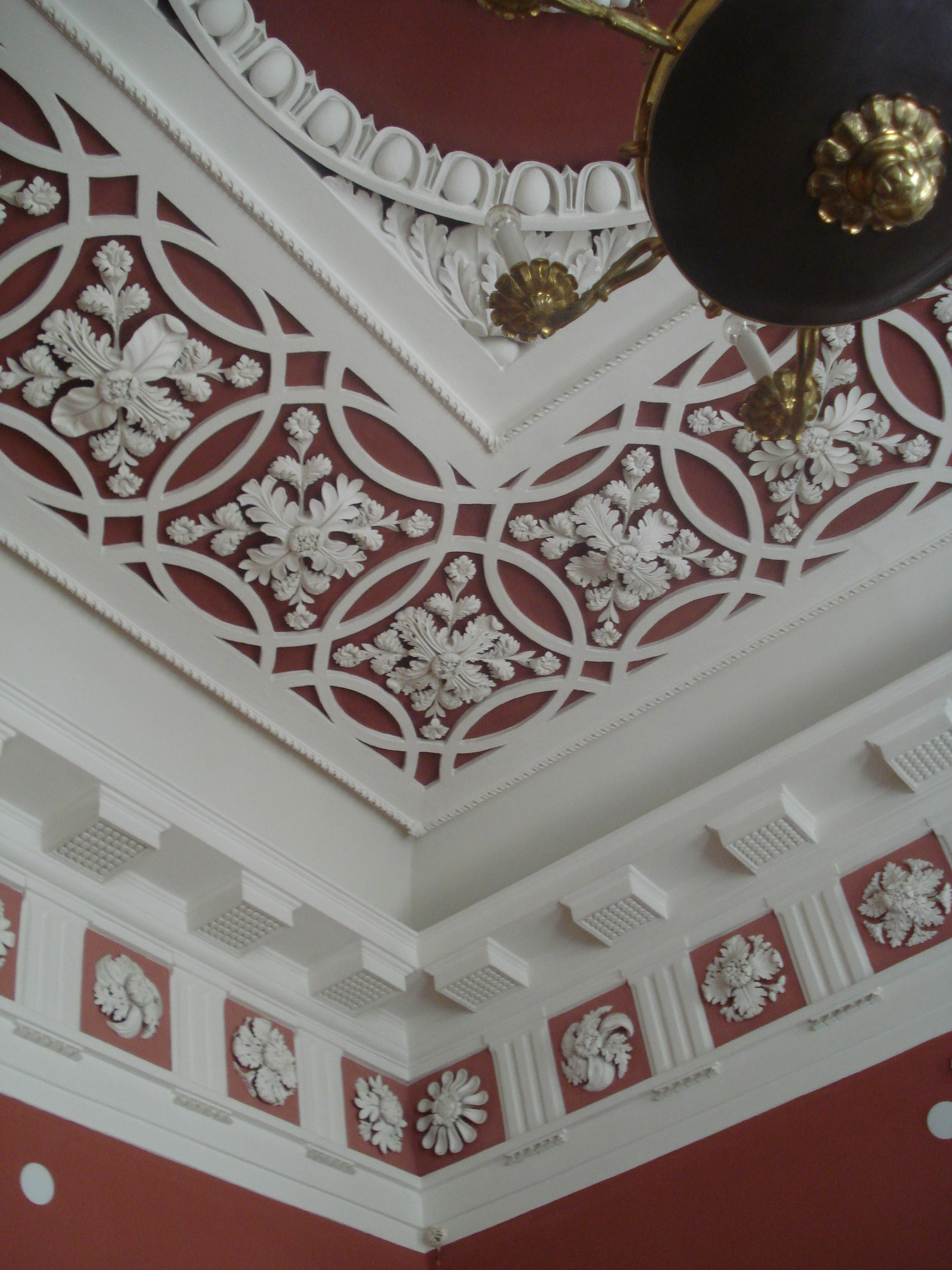 Apartment of architectMichael Schulz on the third floor of the north building of the Sarbievius Courtyard in Vilnius